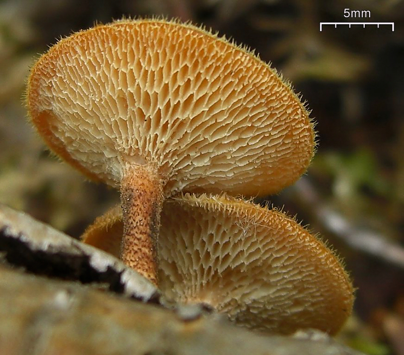 Polyporus arcularius Bat. ex. Fr. 20090629.10 Trophy Meadows, Wells Gray Park, BC Love those hexagonal pores!